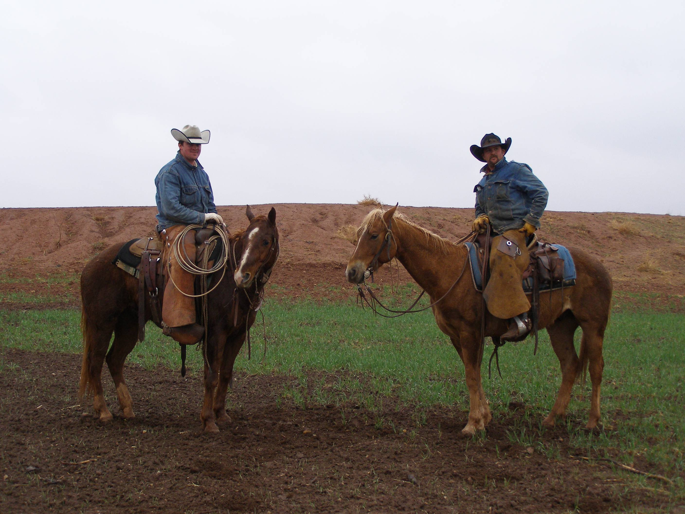 I met these two cowboys near Benjamin, Texas as they were getting ready to go out and rope cattle. They were such good sports and let me take their picture. Here, I asked them to turn so I could get the side view.